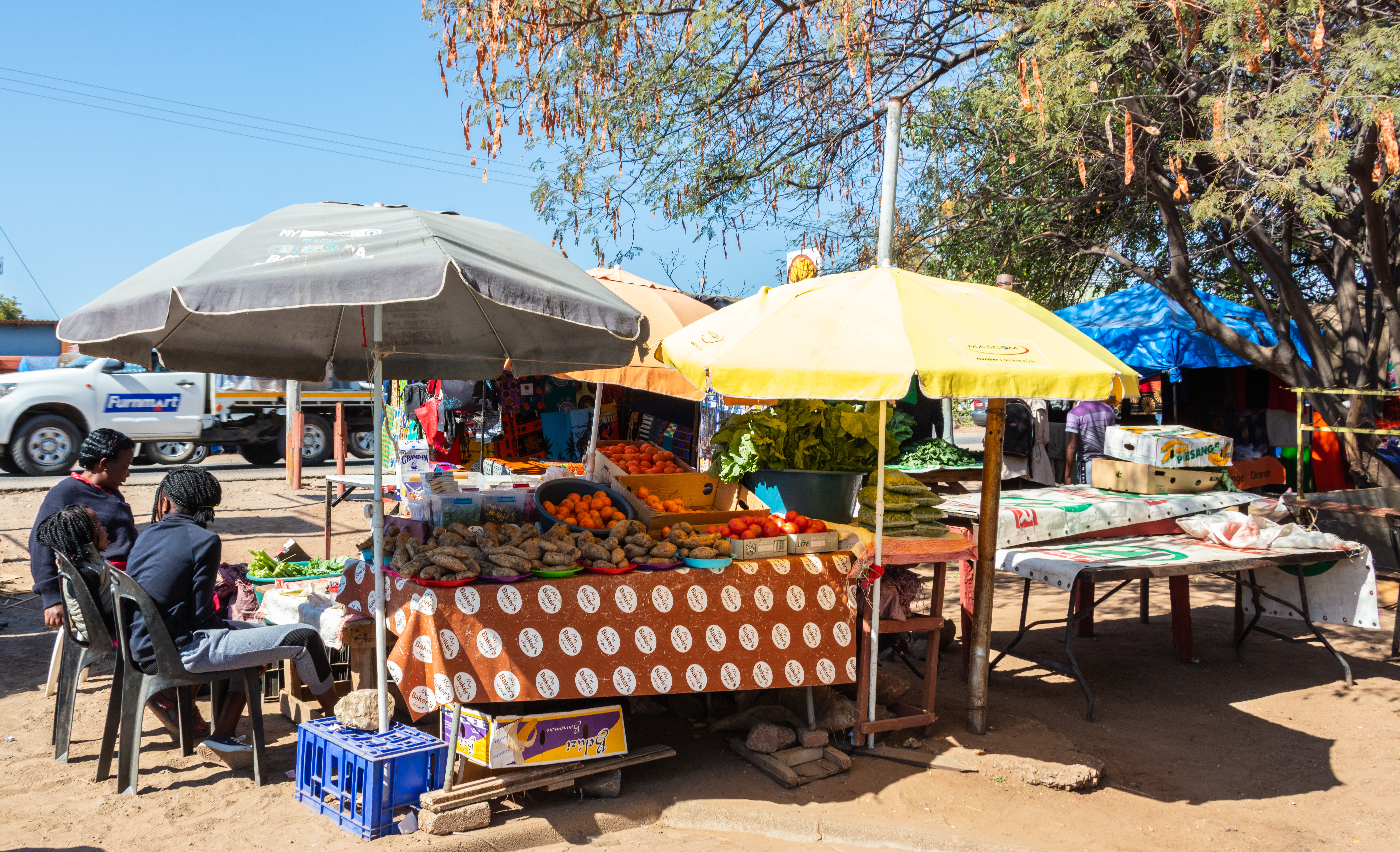 Shops in Kasane, Botswana